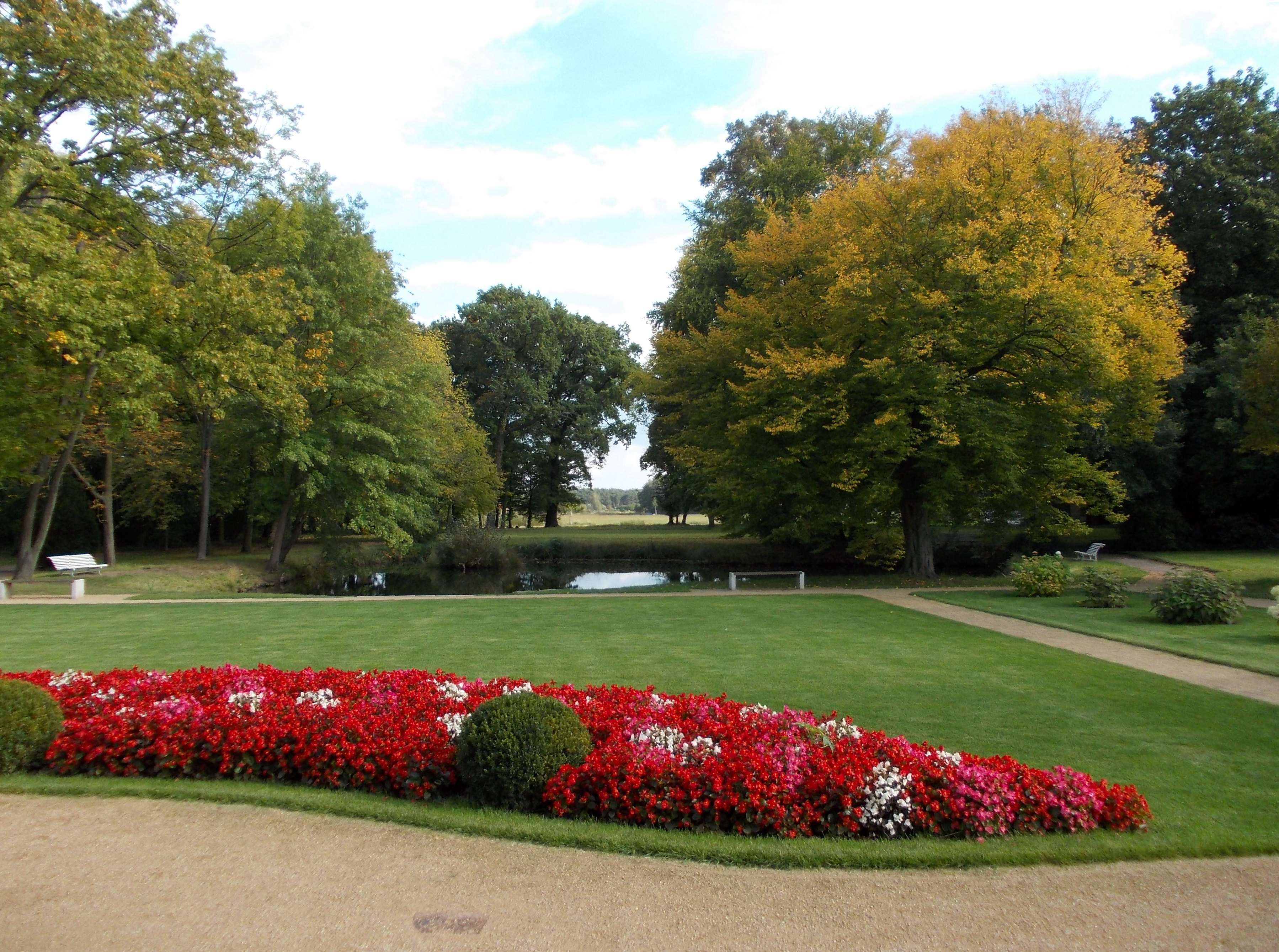 Gardens of Uebigau Castle with pond (Uebigau-Wahrenbrück, Elbe-Elster district, Brandenburg)